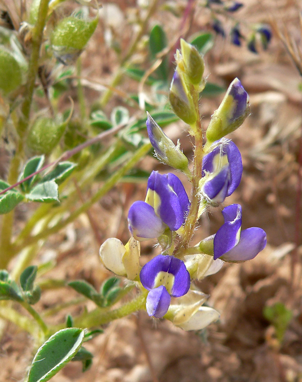 Lupinus flavoculatus in the southern end of Red Rock Canyon near Blue Diamond, Nevada